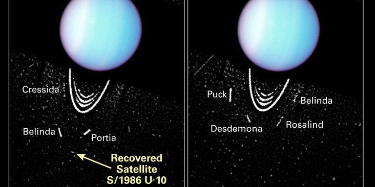 Perdita was discovered in 1999, but could not be found in later searches. The Hubble Space Telescope found it again in 2003 – making it a confirmed moon.